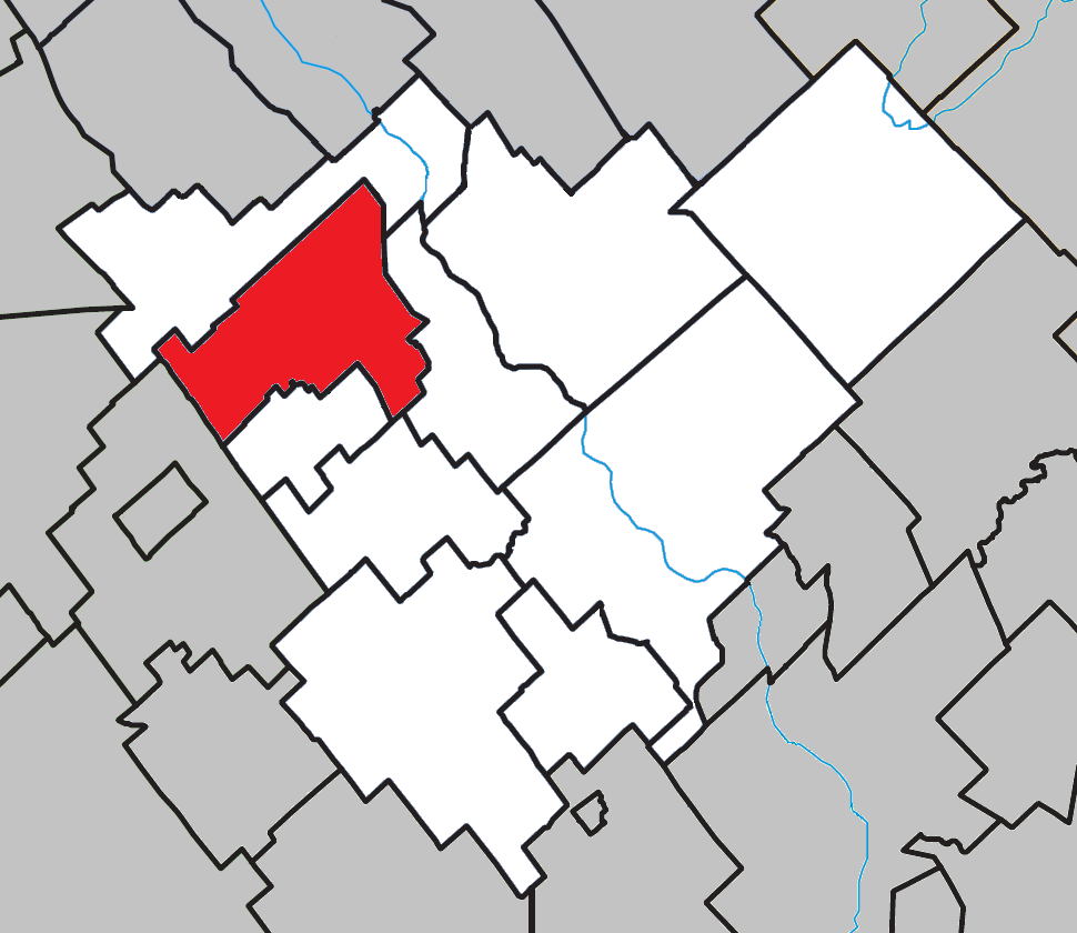 Location of Saint-Frédéric, Quebec within Robert-Cliche Regional County Municipality.